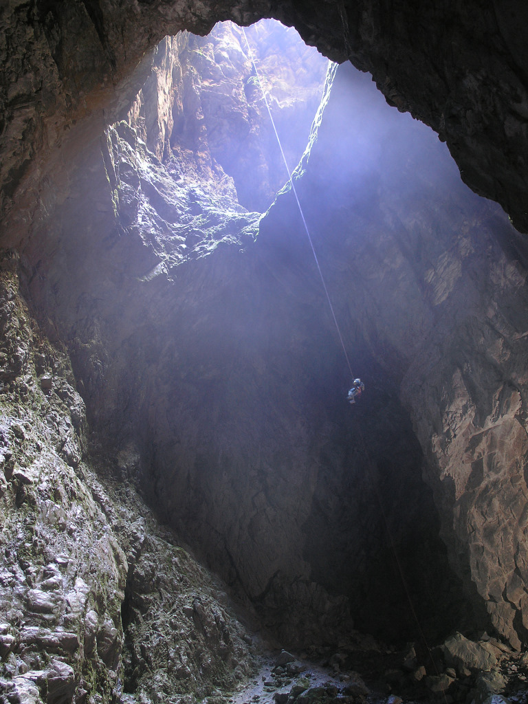 View of the entrance pit of Harwood Hole, New Zealand, taken from the bottom. It is 183 meters (about 600 feet) deep.